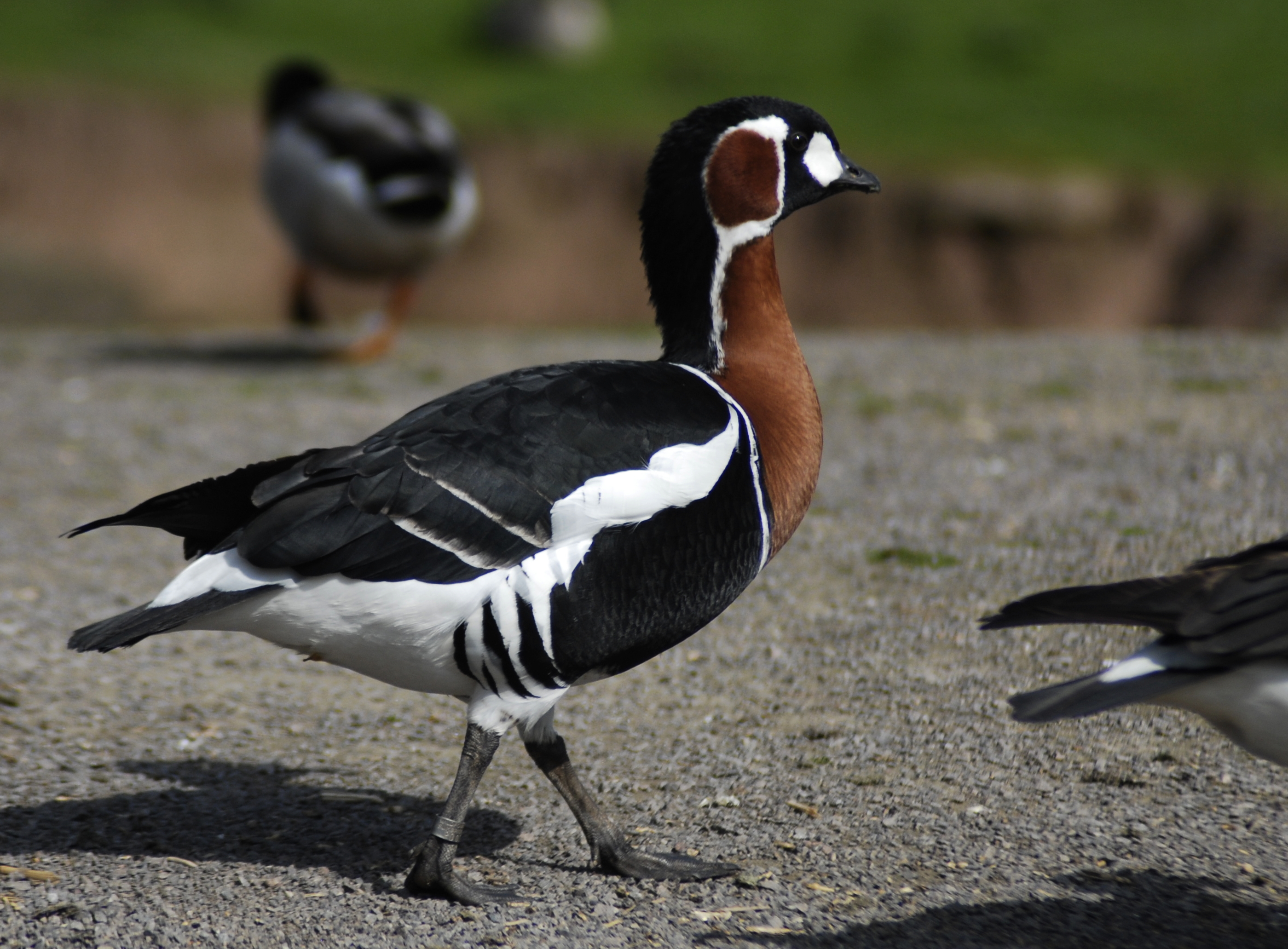 Red-breasted goose (Branta ruficollis)